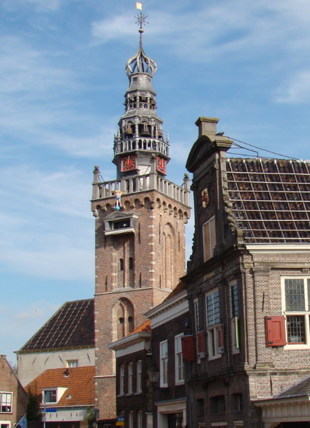 Haven 1 Monnickendam